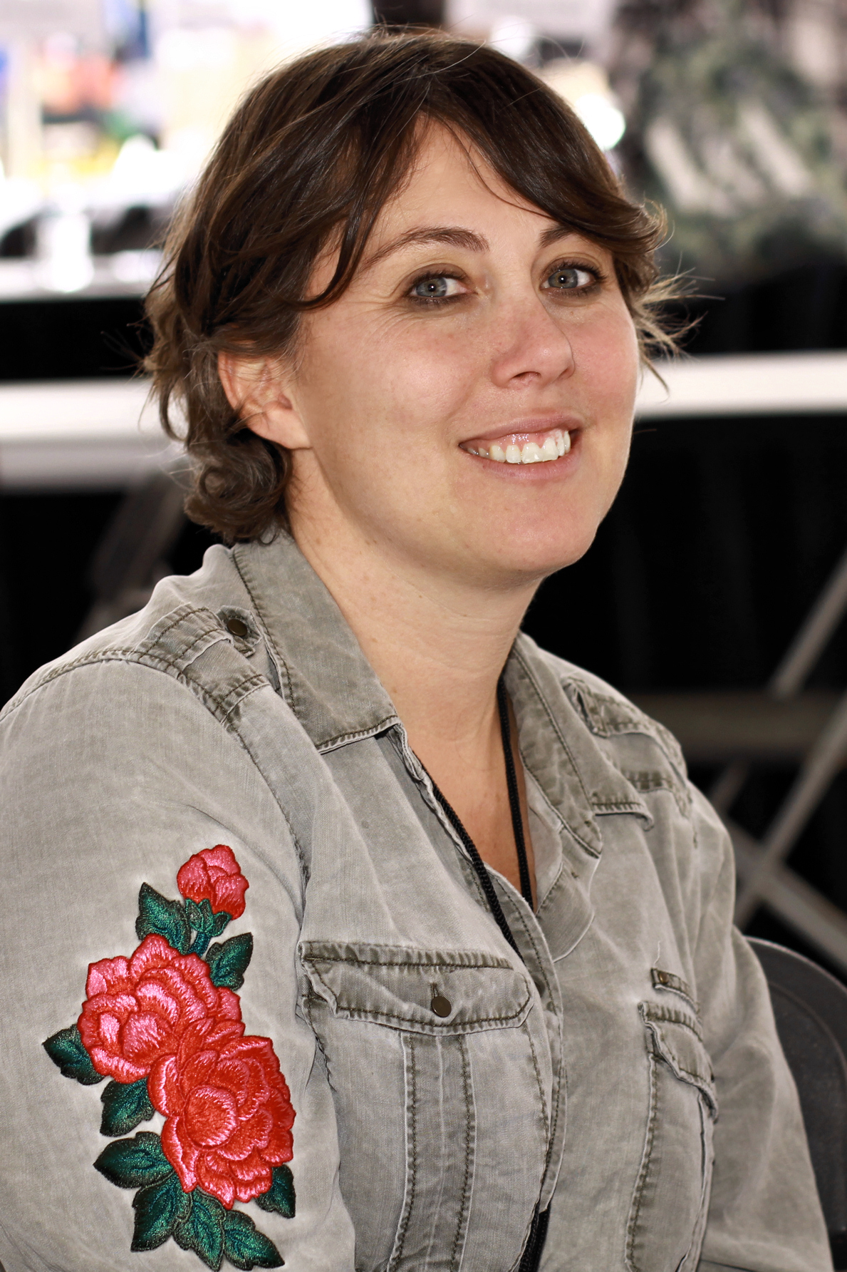 Author Kristen Roupenian at the 2019 Texas Book Festival in Austin, Texas, United States.